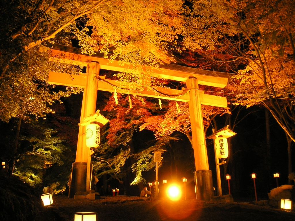 The Momiji Matsuri festival at Hiyoshi Taisha Shrine